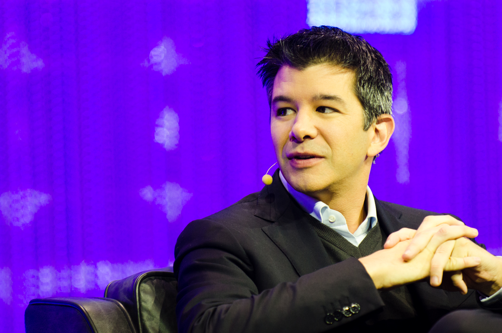 Paris, France, December 10, 2013. LeWeb Day 1. Image by Dan Taylor/Heisenberg Media